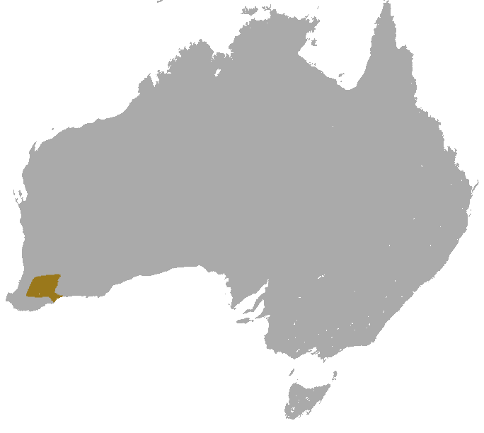 Red-tailed Wambenger (Phascogale calura) range